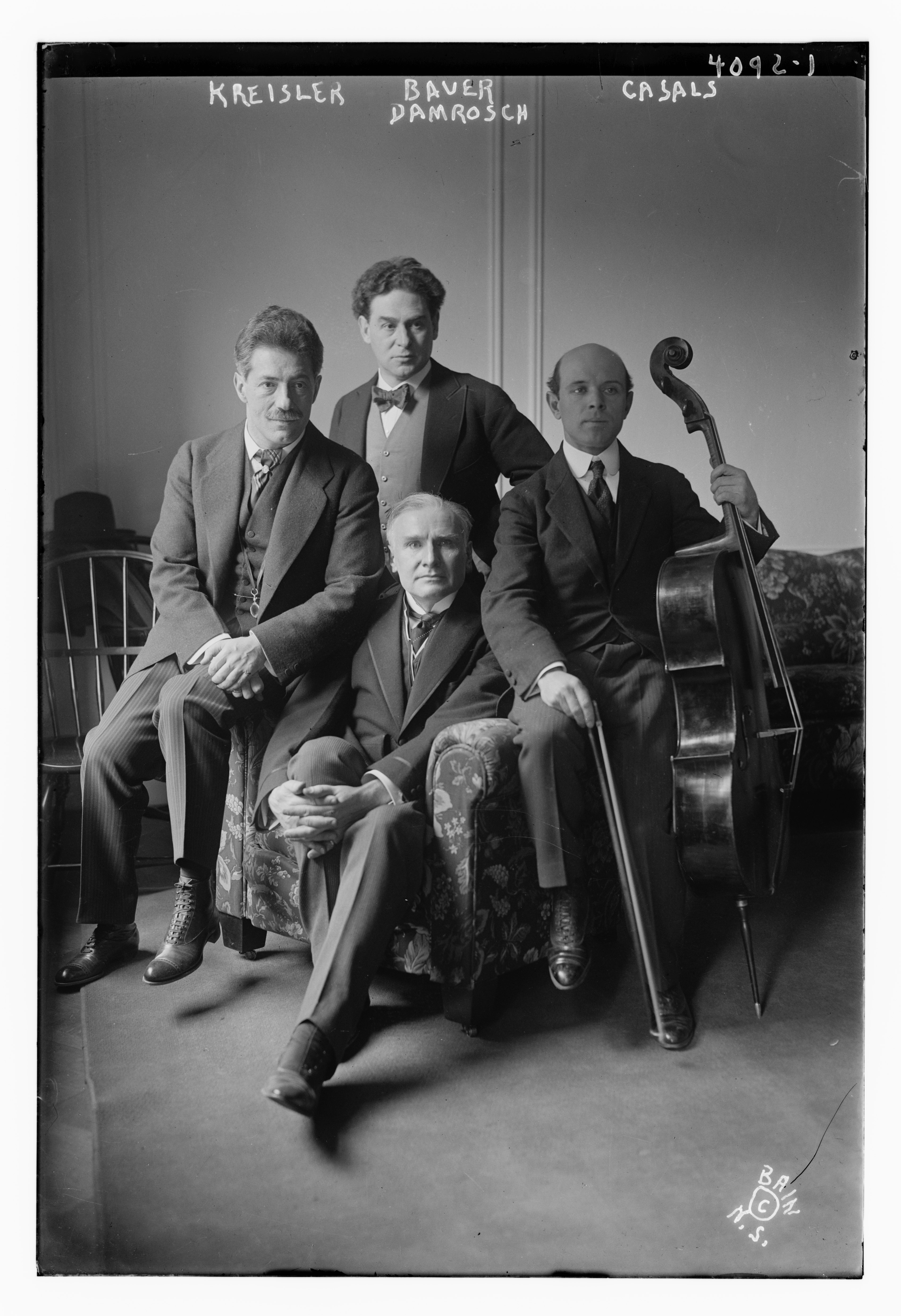 Photograph shows pianist Harold Victor Bauer (1873-1951), violinist Friedrich "Fritz" Kreisler (1875-1962), composer and conductor Walter Johannes Damrosch (1862-1950) and Pablo Casals (1876-1973). (Source: Flickr Commons project, 2014) "Cellist Pablo Casals, violinist Fritz Kreisler, pianist Harold Bauer and conductor Walter Damrosch in 1904. Blaine Littell Collection of Walter Damrosch Memorabilia / Carnegie Hall Archives"